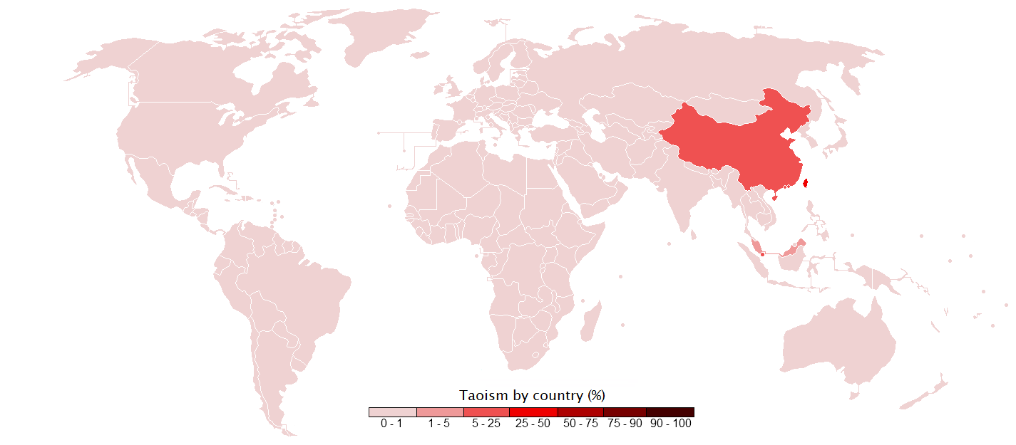 A map showing the followers of Taoism by percentage in each country.